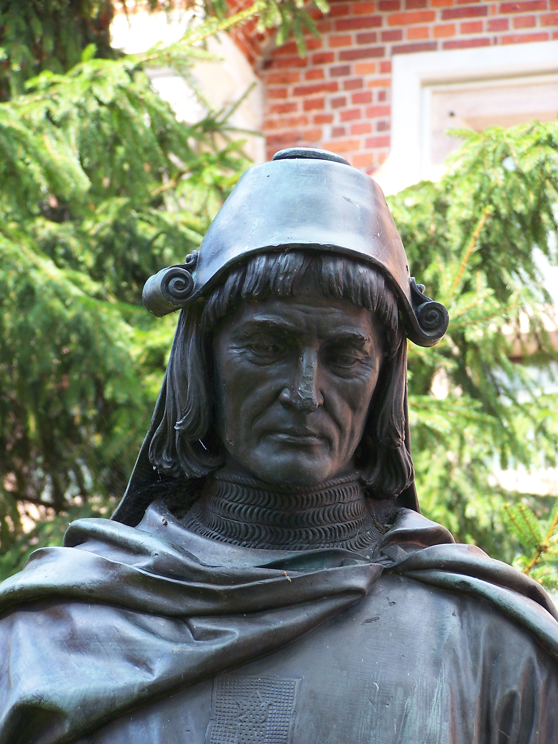 Statue of Hermann von Salza in castle of Malbork.